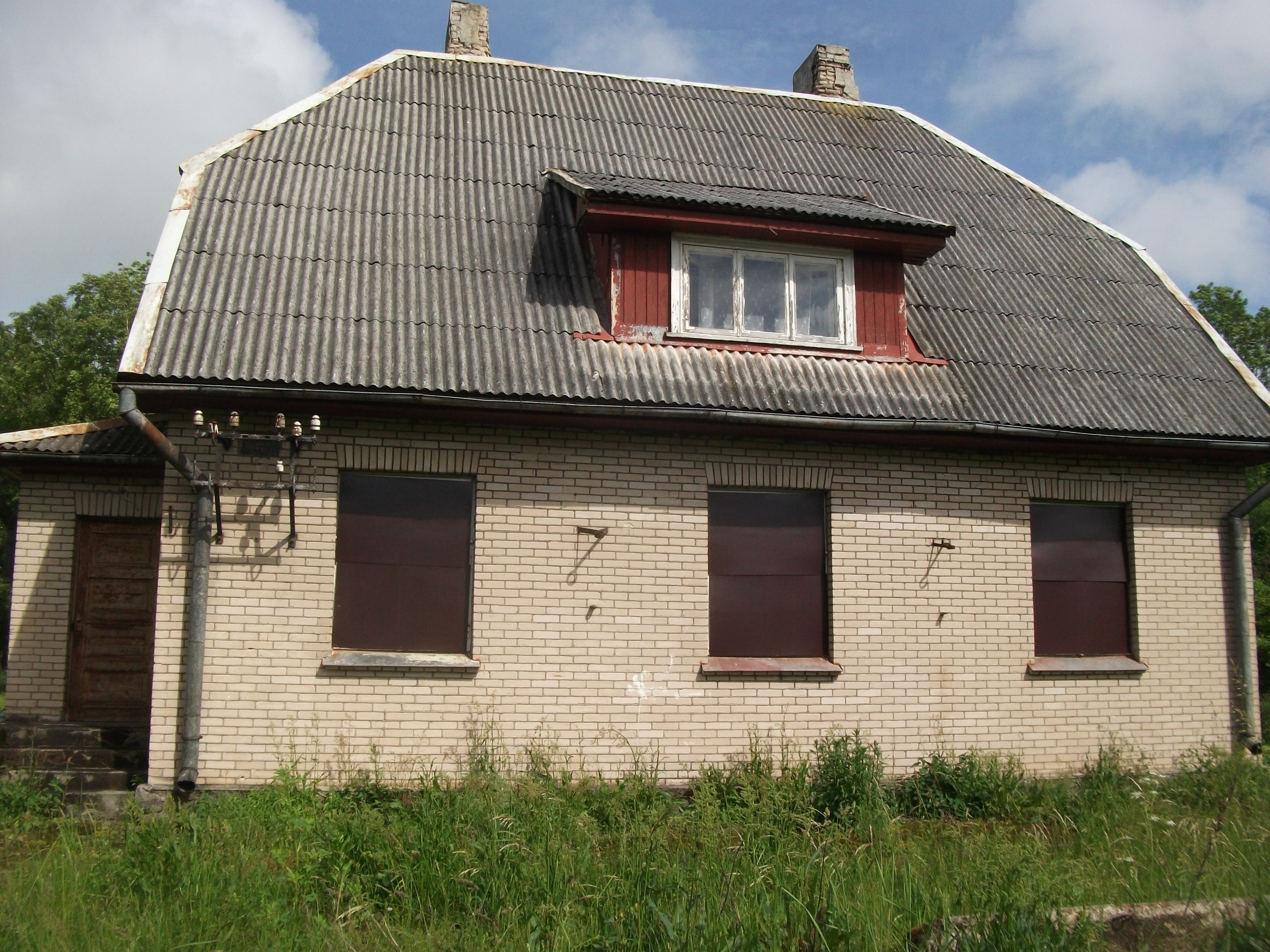 Kapsēdes stacijas priekšskats